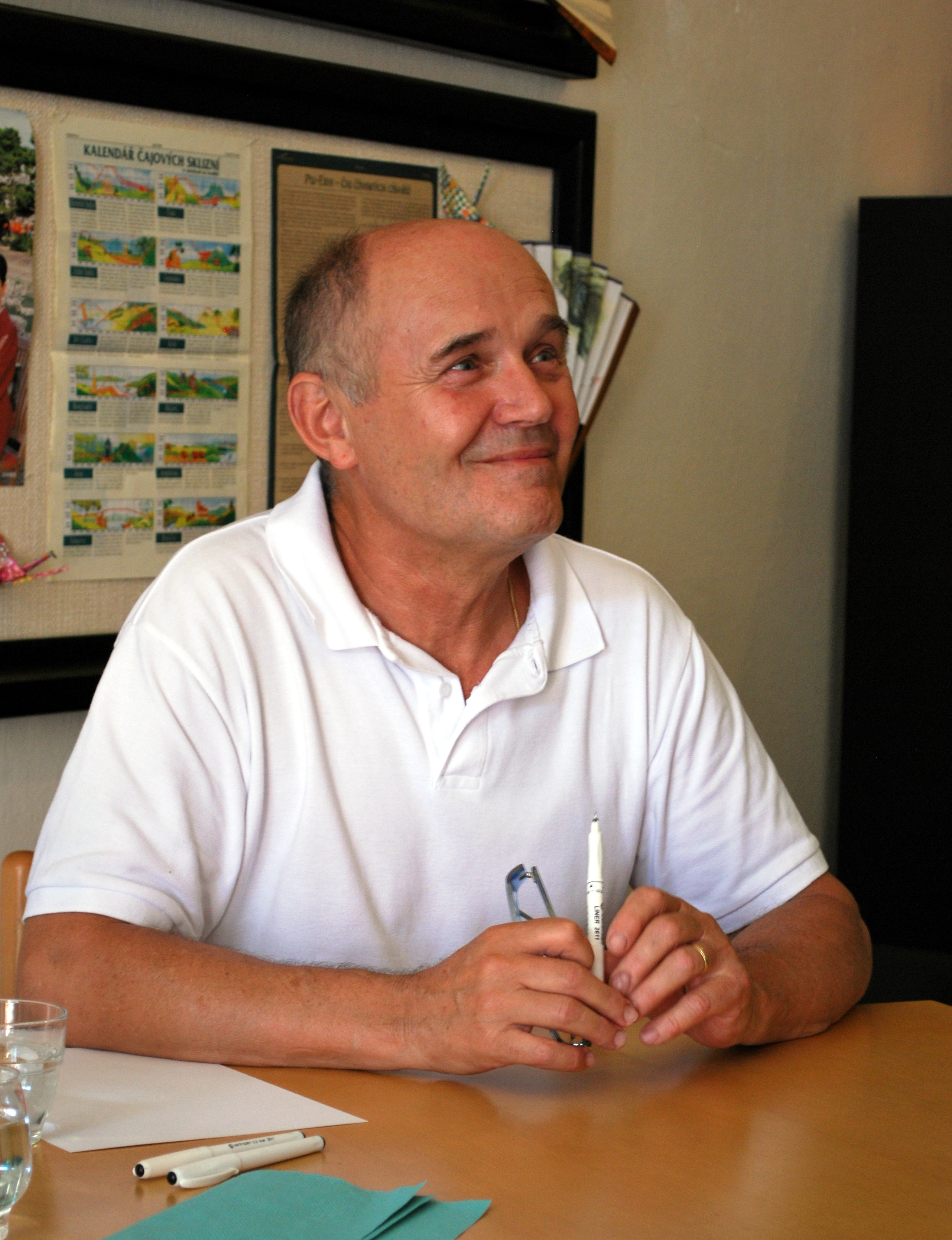 Czech illustrator and author of Čtyřlístek Jaroslav Němeček on the book signing in Písek, Czech Republic.